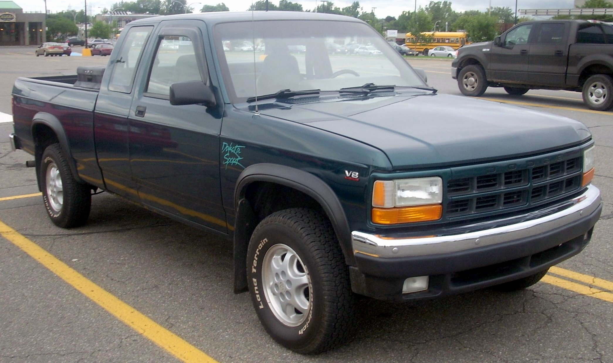 1994-1996 Dodge Dakota photographed in Montreal, Quebec, Canada.